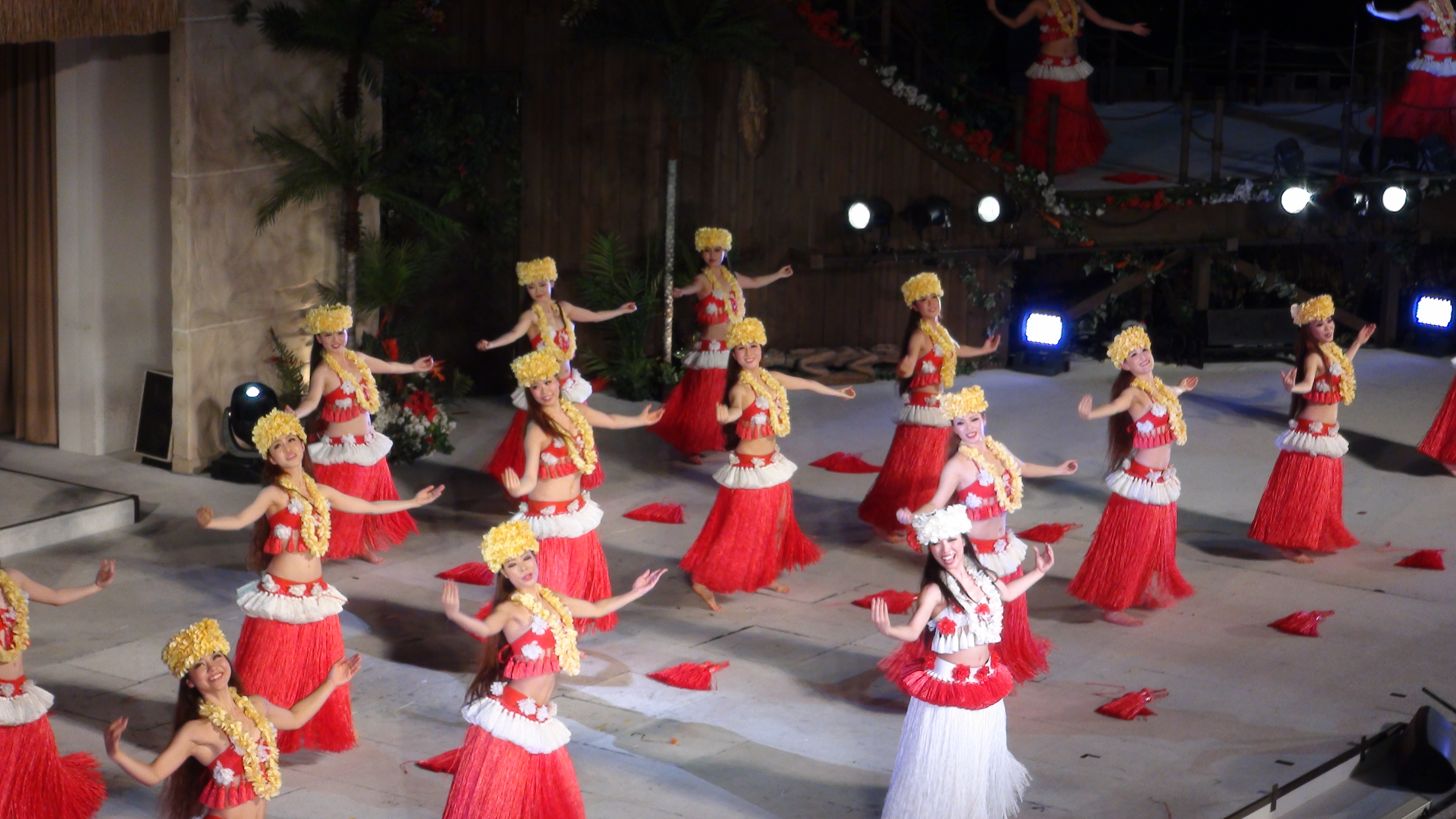 Spa Resort Hawaiians. Dance of Fula Girls